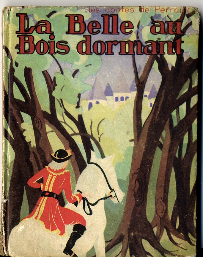 La Belle au Bois Dormant